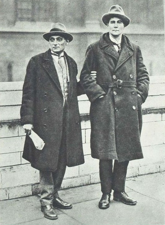 Sharpurji Saklatvala, newly elected Labour MP, with Walton Newbold, newly elected Communist MP